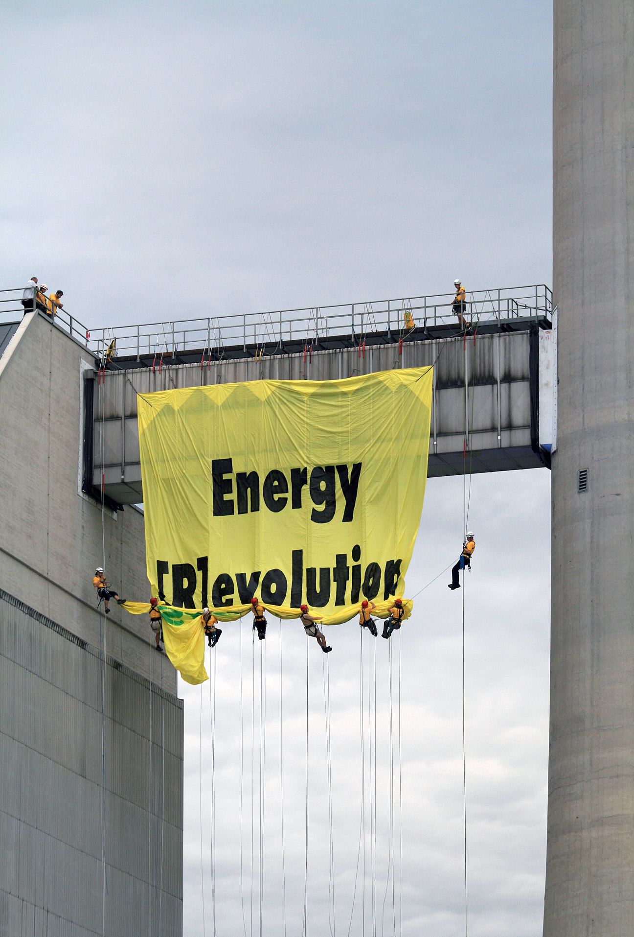 Greenpeace-banner at the Zwentendorf Nuclear Power Plant during Save the World Awards ceremony 2009.